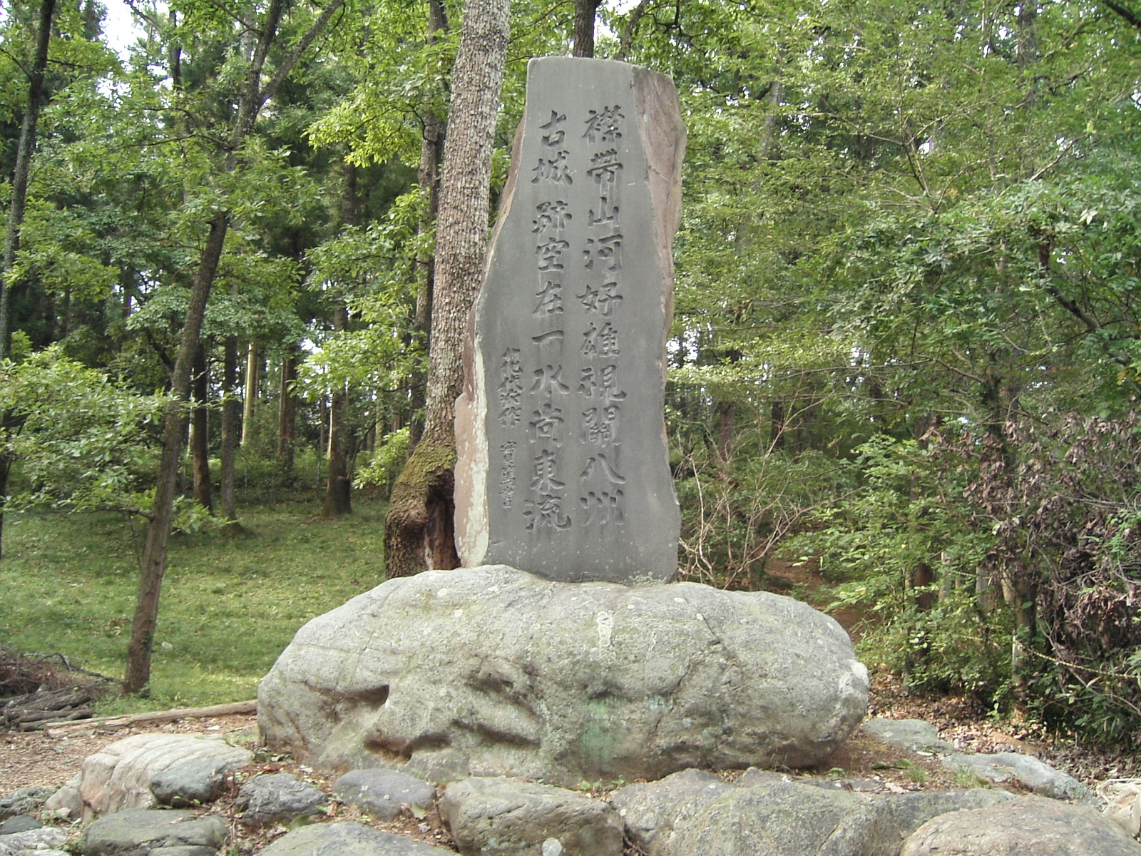 Katai Tayama's memorial in the Honmaru'trace of Hachigata-Jou(Castle) in Yorii-Machi,Saitama pref.,Japan 鉢形城本丸跡の田山花袋記念碑（埼玉県寄居町）